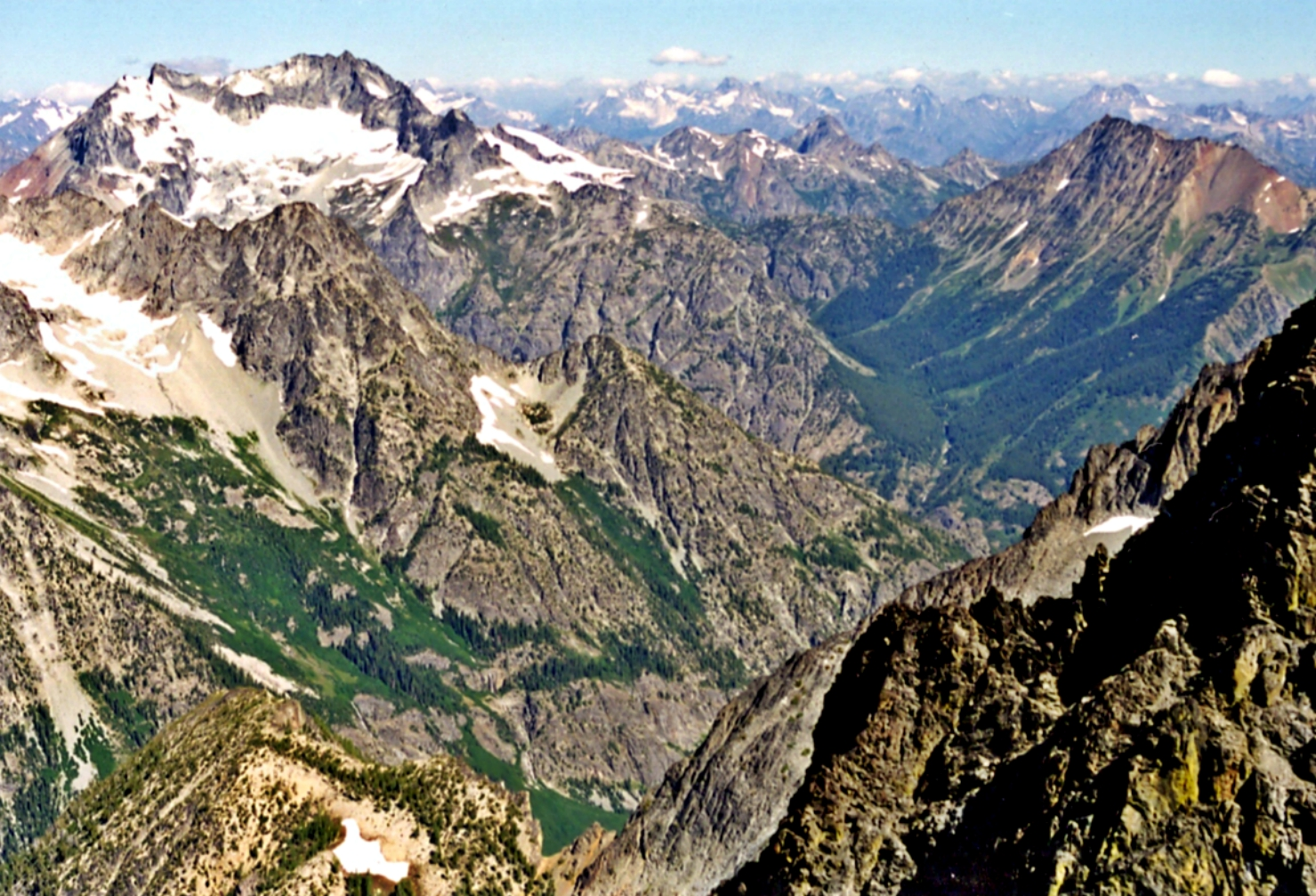 Bonanza Peak seen from Seven Fingered Jack. Glacier Peak Wilderness. North Cascades mountains.